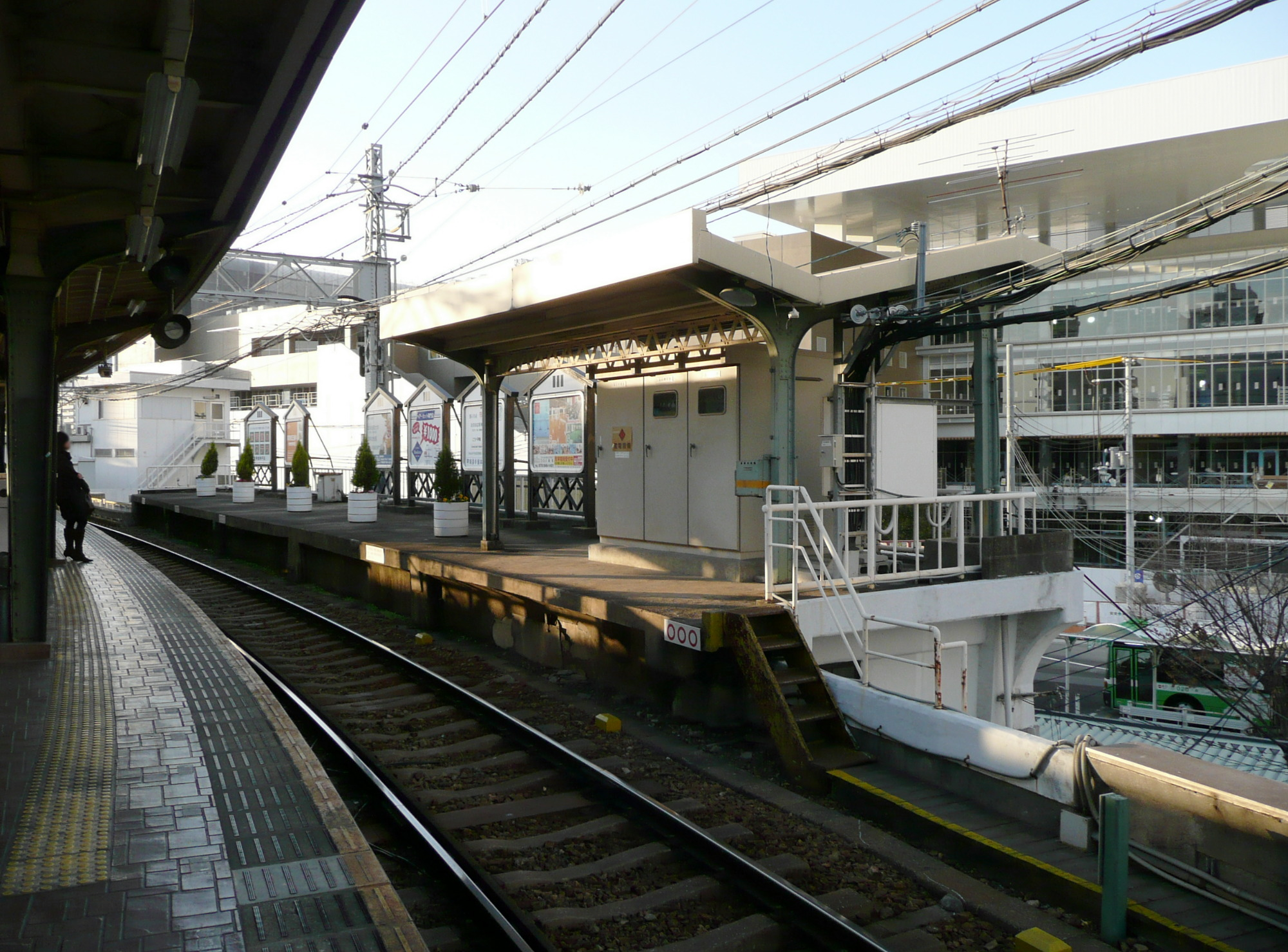 Hanshin Electric Railway,Main Line,Mikage Station closed freight platform. /阪神本線御影駅旧貨物専用ホーム